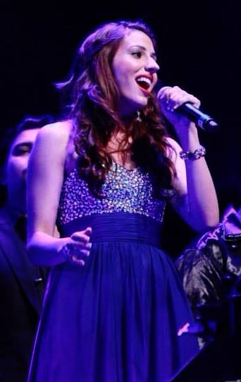 Natalie performing at A.R.Rahman's concert in Chennai, India.